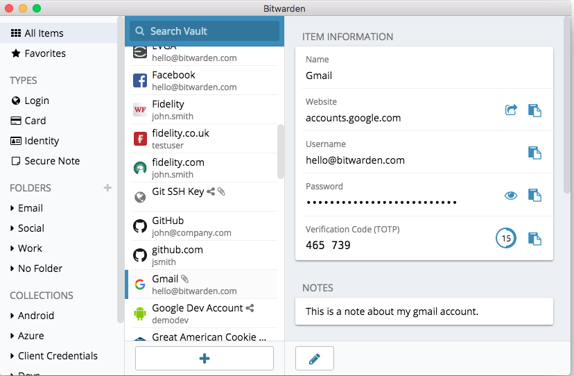 The Bitwarden desktop application running on macOS